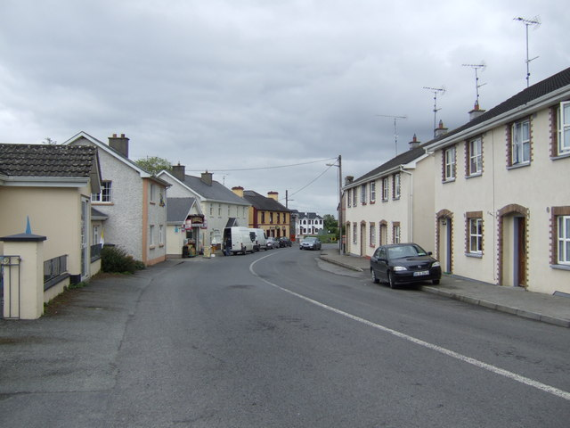 Main Street, Abbeylara, Co. Longford The B396 south towards Castlepollard.